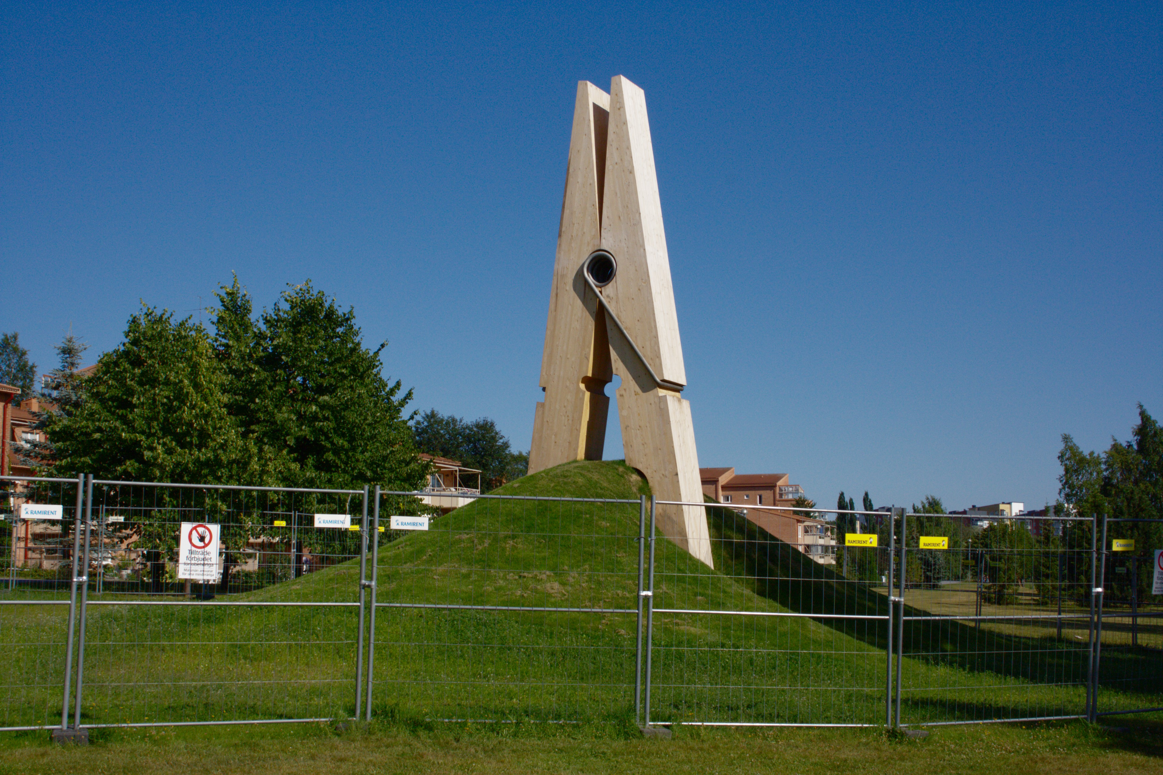 "Skin 4" by Mehmet Ali Uysal.